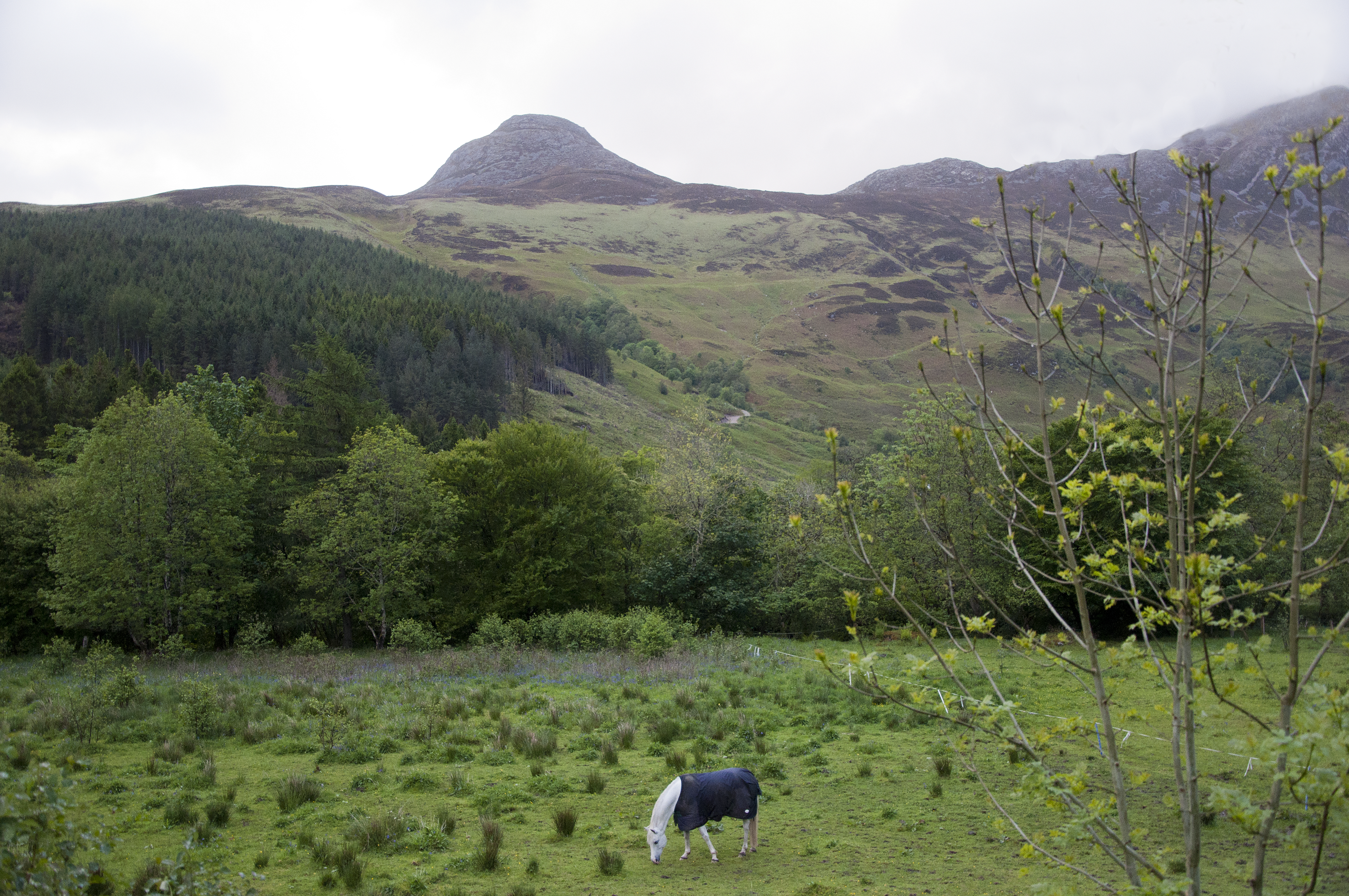 Pap of Glencoe, Glencoe, Scotland